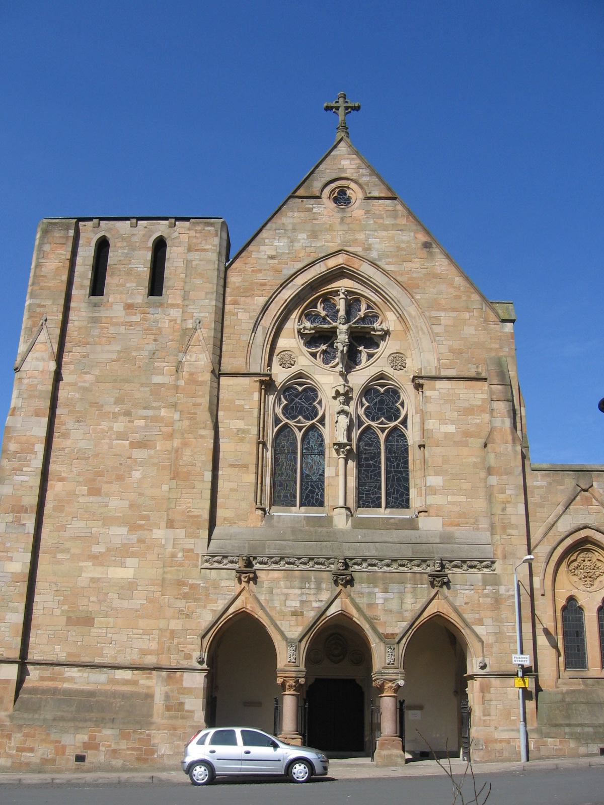 Roman Cathollic Church of St. Mungo, Glasgow